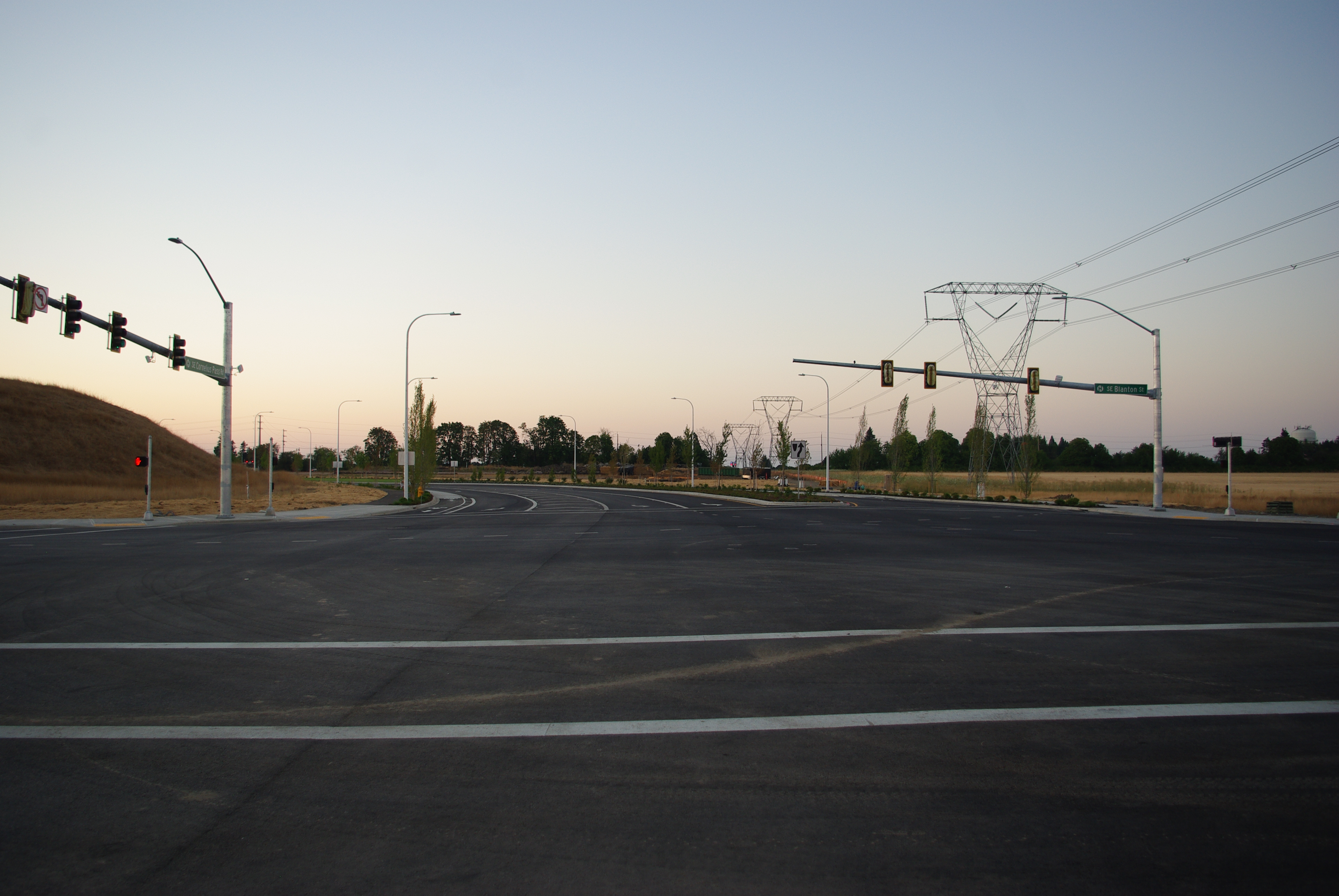 Just opened section of Cornelius Pass Road looking north in July 2018 in Hillsboro, Oregon.